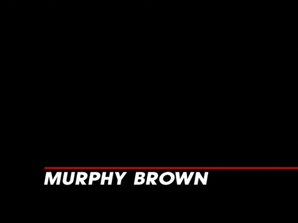 Intertitle of Murphy Brown